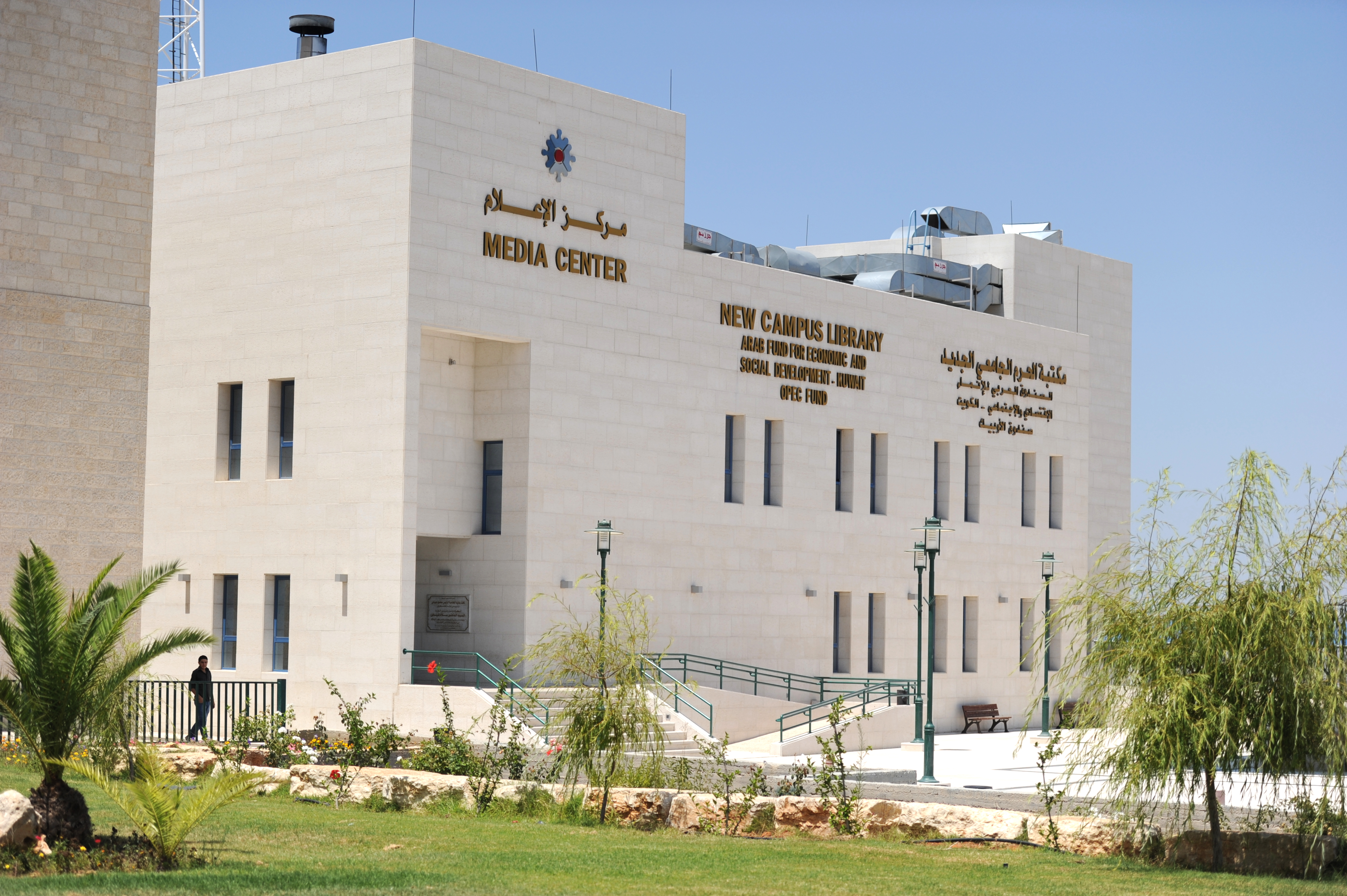 Media Center and New Campus library at the An-Najah University in Nablus, West Bank